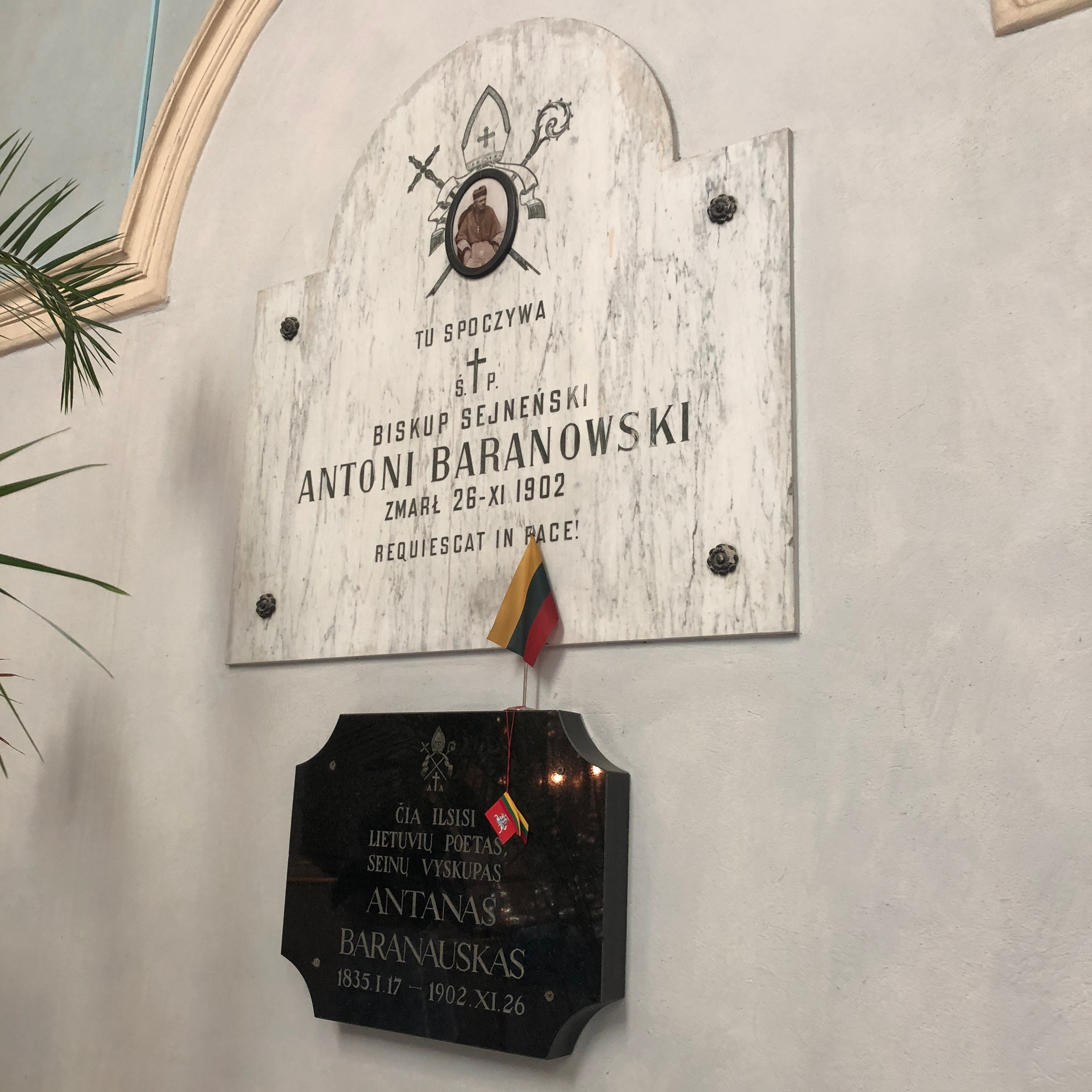 Memorial plaque to A.Baranauskas in Sejny Cathedral